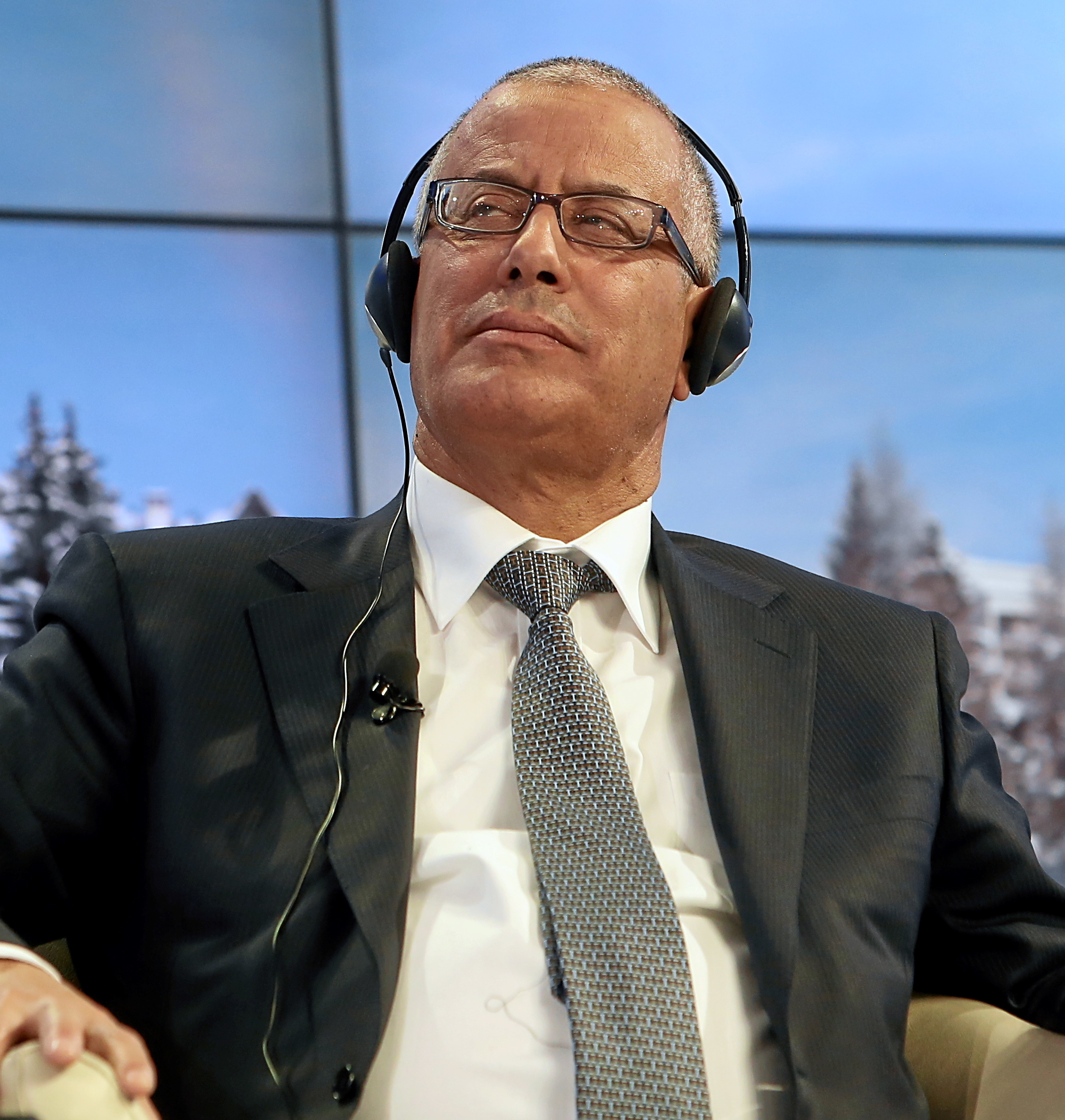 DAVOS/SWITZERLAND, 25JAN13 - Ali M. Z. Ben Zedan, Prime Minister of Libya, listens during the session 'Transformations in the Arab World' at the Annual Meeting 2013 of the World Economic Forum in Davos, Switzerland, January 25, 2013. . . Copyright by World Economic Forum. . Monika Flueckiger